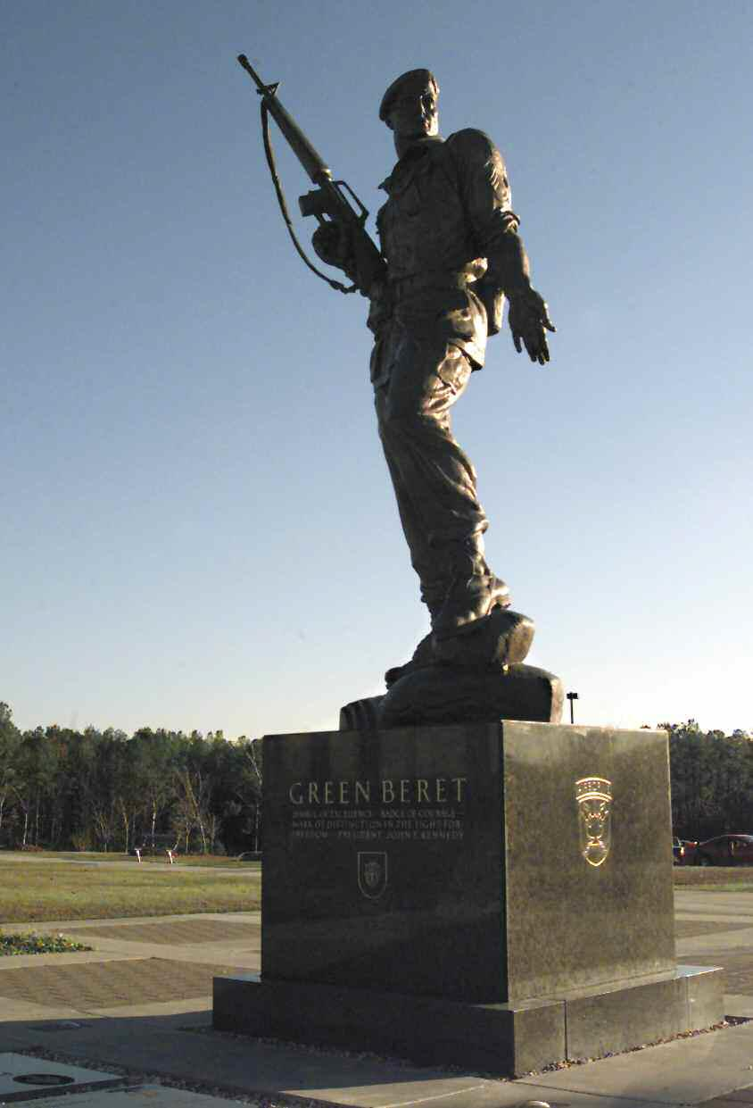 The Special Warfare Memorial Statue, also known as "Bronze Bruce," was the first Vietnam memorial in the United States and was dedicated in 1969.